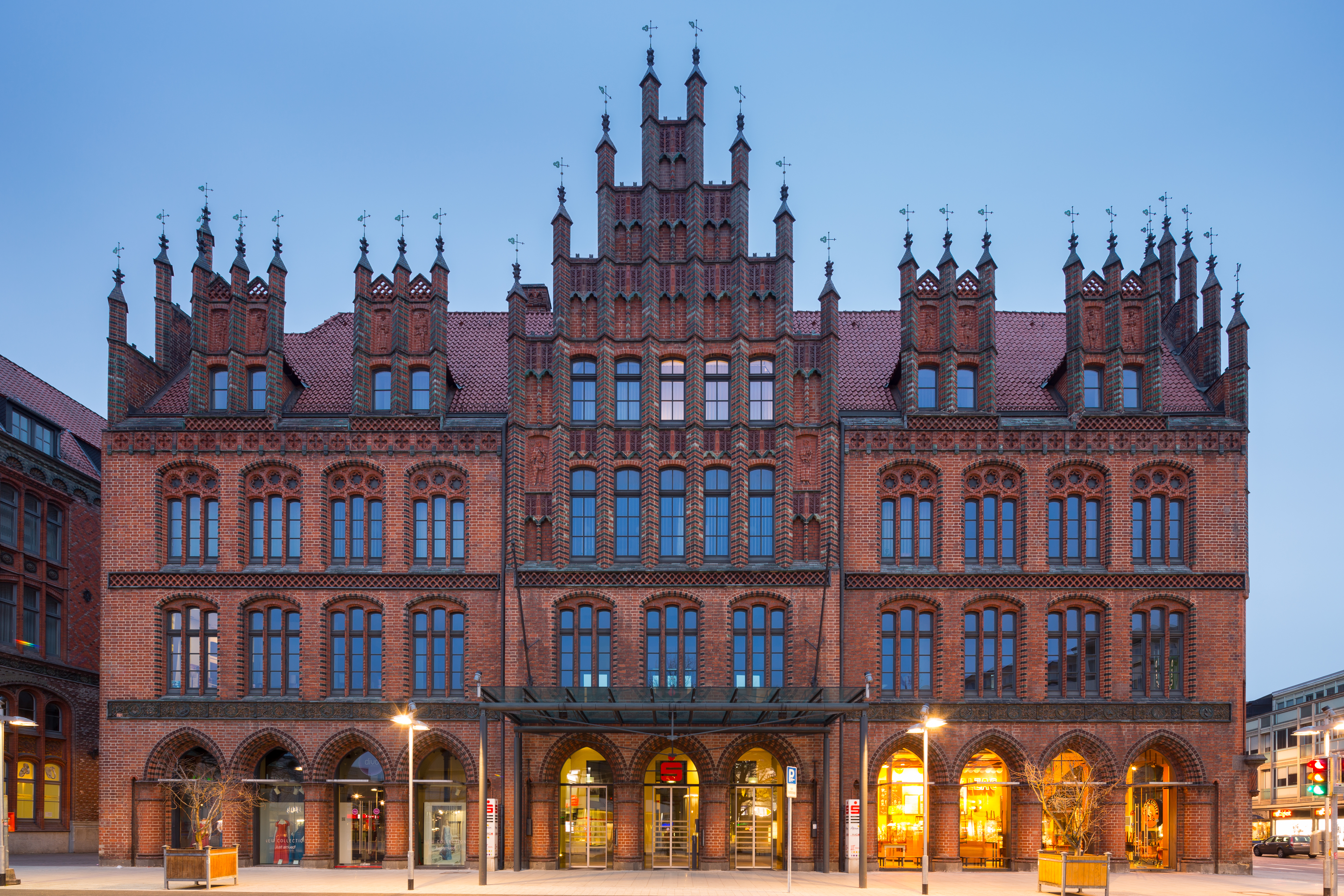 Hannover's old town hall located at Karmarschstrasse (pictured) and Schmiedestrasse in Mitte district of Hannover, Germany.